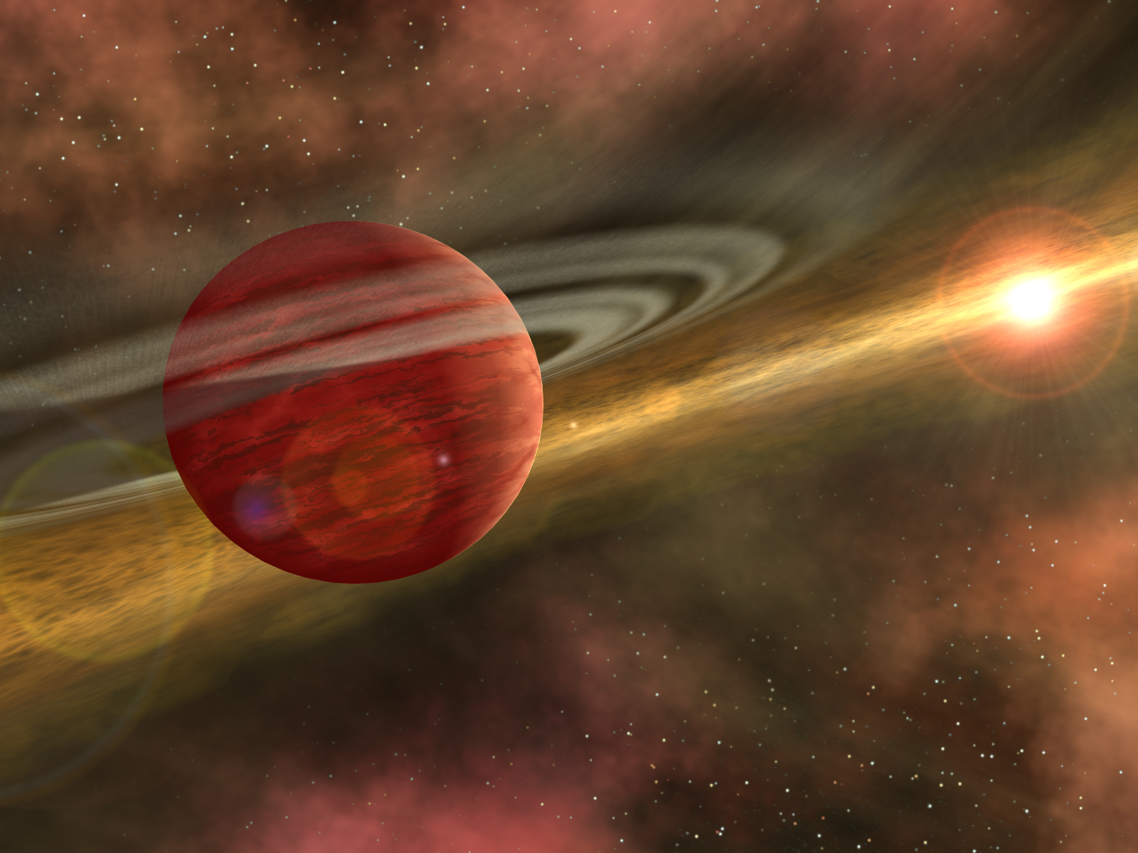 In this artist's conception, a possible newfound planet spins through a clearing in a nearby star's dusty, planet-forming disc. This clearing was detected around the star CoKu Tau 4 by NASA's Spitzer Space Telescope. Astronomers believe that an orbiting massive body, like a planet, may have swept away the star's disc material, leaving a central hole.The possible planet is theorized to be at least as massive as Jupiter, and may have a similar appearance to what the giant planets in our own solar system looked like billions of years ago. A graceful ring, much like Saturn's, spins high above the planet's cloudy atmosphere. The ring is formed from countless small orbiting particles of dust and ice, leftovers from the initial gravitational collapse that formed the possible giant planet.If we were to visit a planet like this, we would have a very different view of the universe. The sky, instead of being the familiar dark expanse lit by distant stars, would be dominated by the thick disc of dust that fills this young planetary system. The view looking toward CoKu Tau 4 would be relatively clear, as the dust in the interior of the disc has fallen into the accreting star. A bright band would seem to surround the central star, caused by light scattered back by the dust in the disc. Looking away from CoKu Tau 4, the dusty disc would appear dark, blotting out light from all the stars in the sky except those which lie well above the plane of the disc.